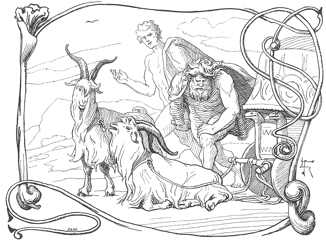 After defeating Hymir and his many-headed army, Thor discovers that one his goats is lame in the leg. Týr watches on.